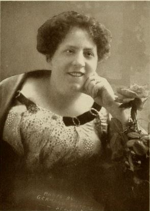 Clara Estelle Baumhoff, Johnson, Anne (André) "Mrs. Charles P. Johnson", 1871-. Notable women of St. Louis, 1914; (Kindle Location 4402). [St. Louis, Woodward.